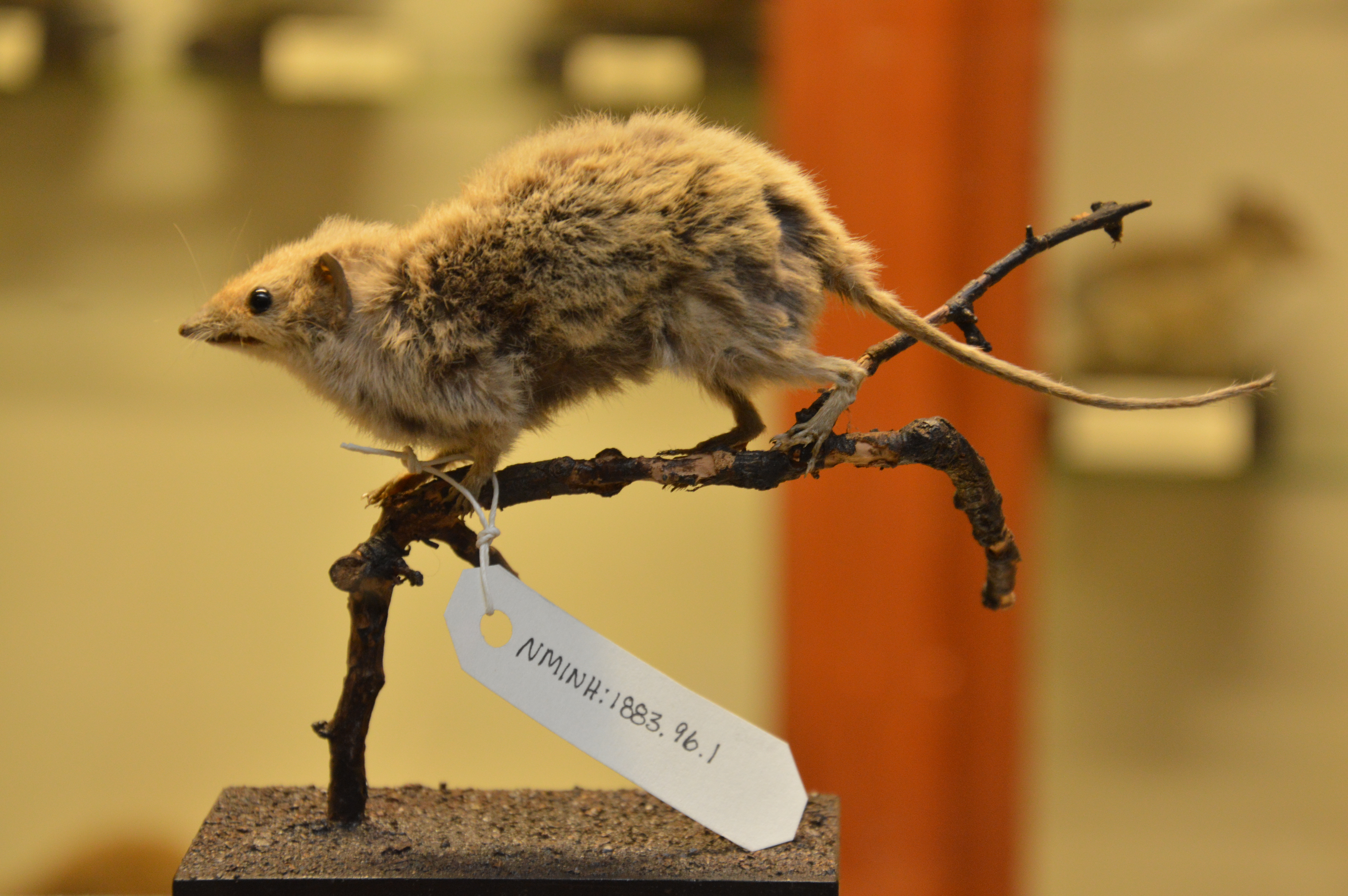 Parantechinus apicalis at the Natural History Museum (National Museum of Ireland) in Dublin.